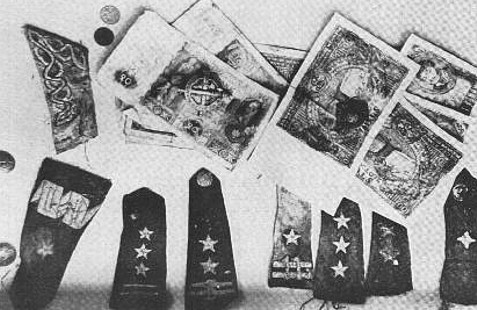 Photo from 1943 exhumation of mass grave of polish officers killed by NKVD in Katyń Forest in 1940. Officer lapels and banknotes found in the graves.